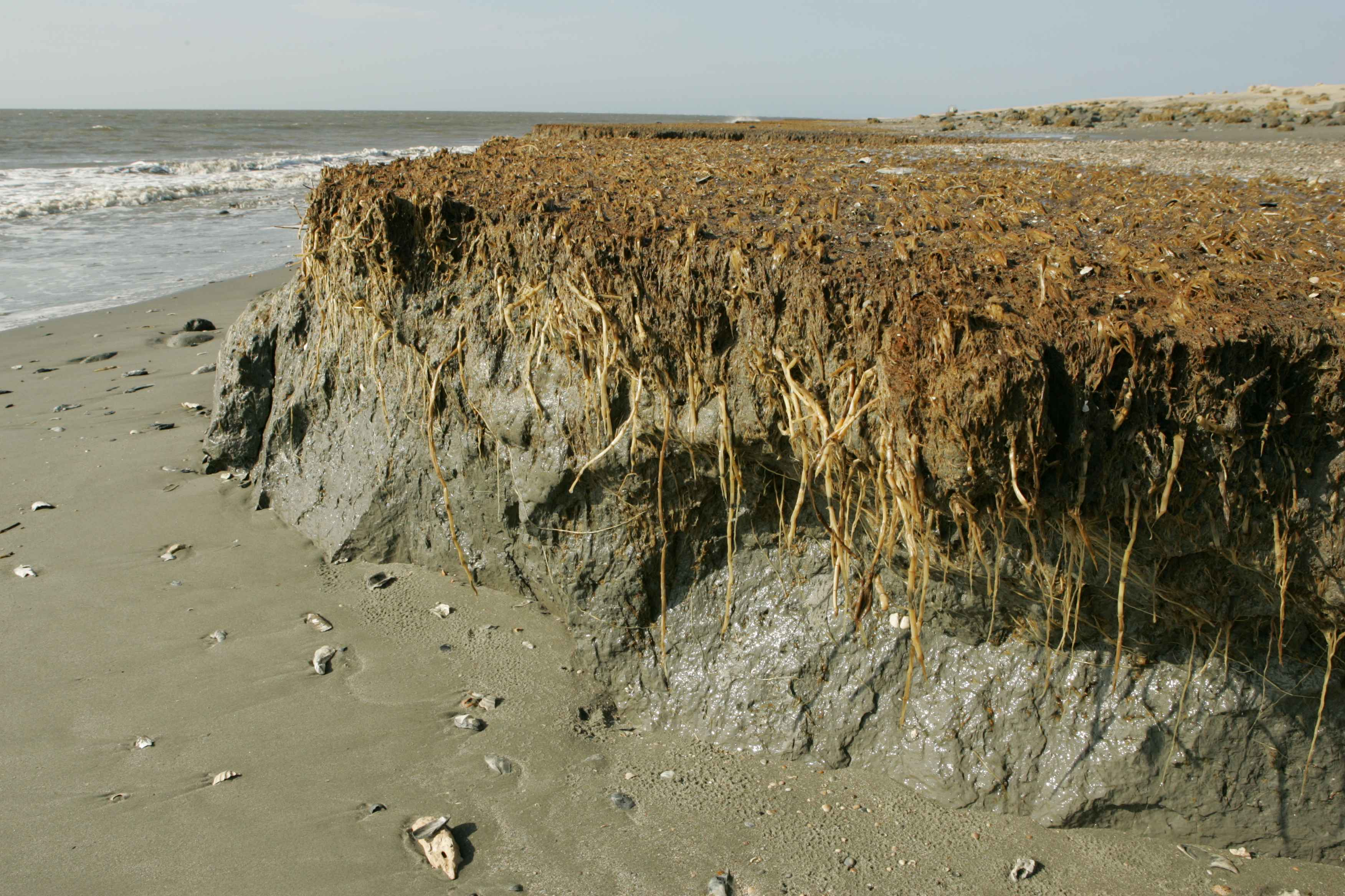 Image title: Beach erosion effects on coast Image from Public domain images website